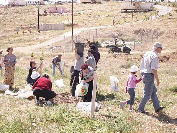 Seminar of Meeting Place NGO. Planting trees at Maaleh Rechavam. 2006.